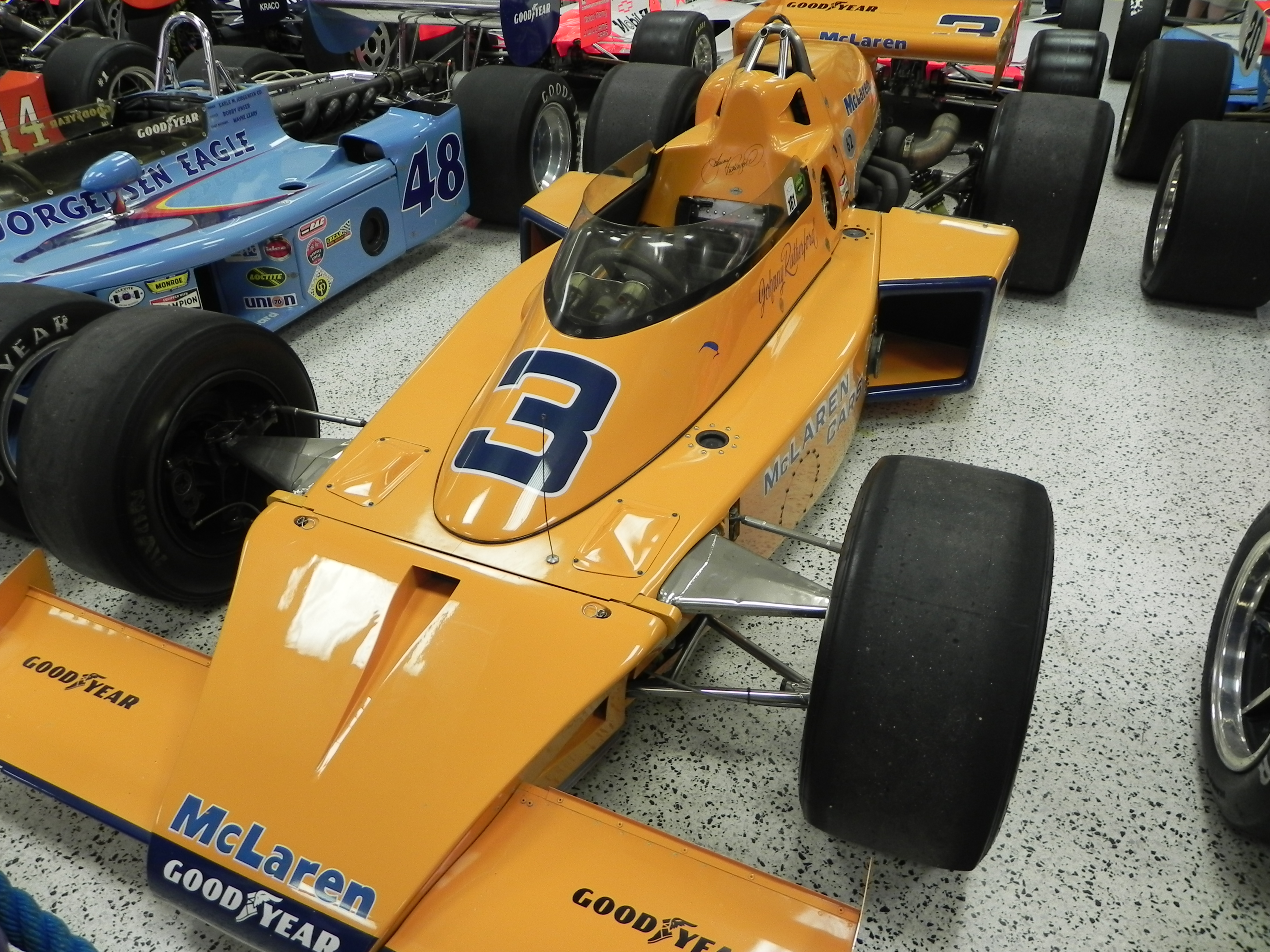 Image of the winning car of the 1974 Indianapolis 500 (Johnny Rutherford). Photo was taken at the Indianapolis Motor Speedway Hall of Fame Museum, during the month of May 2011, at the 100th Anniversary "Ultimate Indianapolis 500 Winning Car Collection."